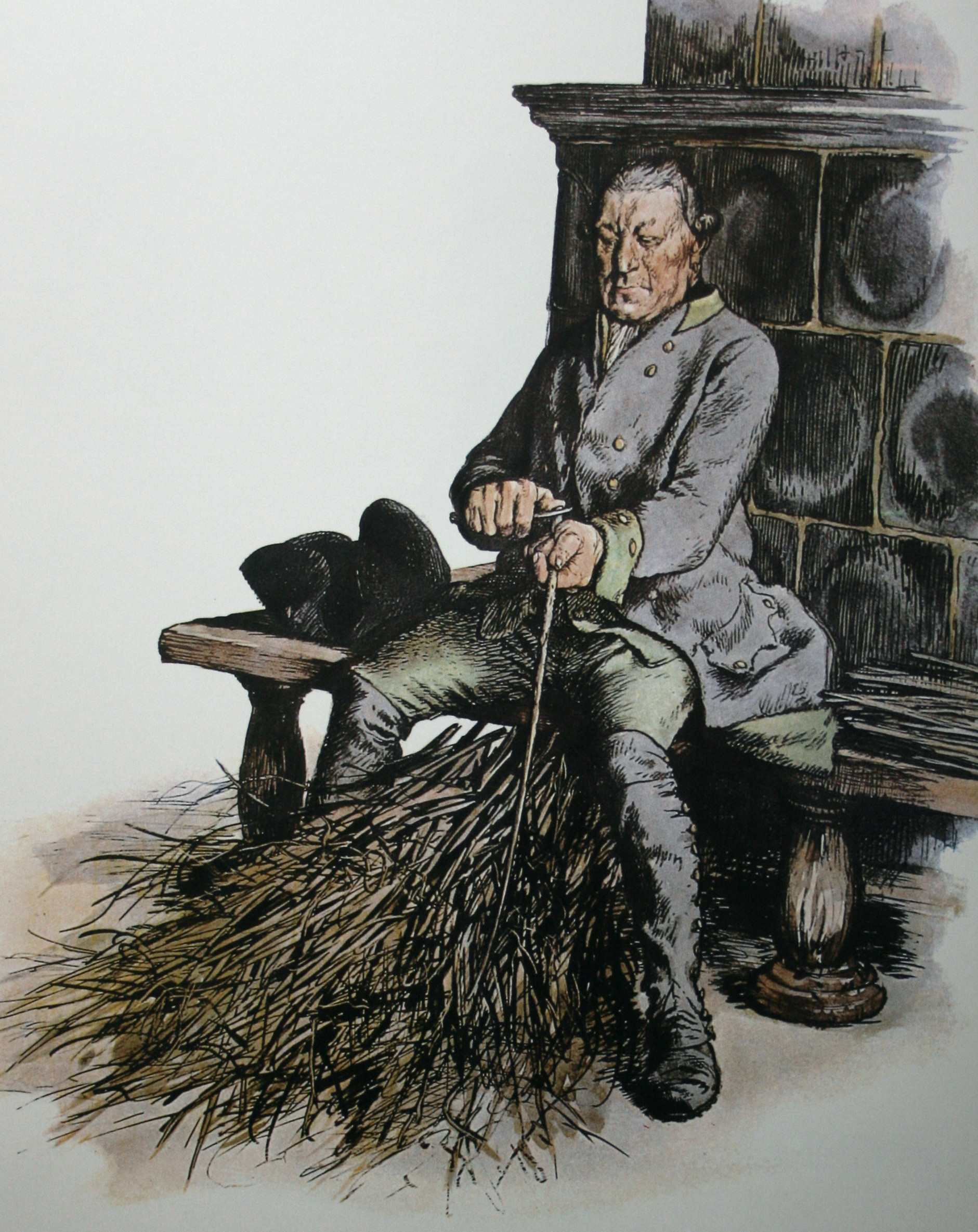 Prussian Profoss 18th century